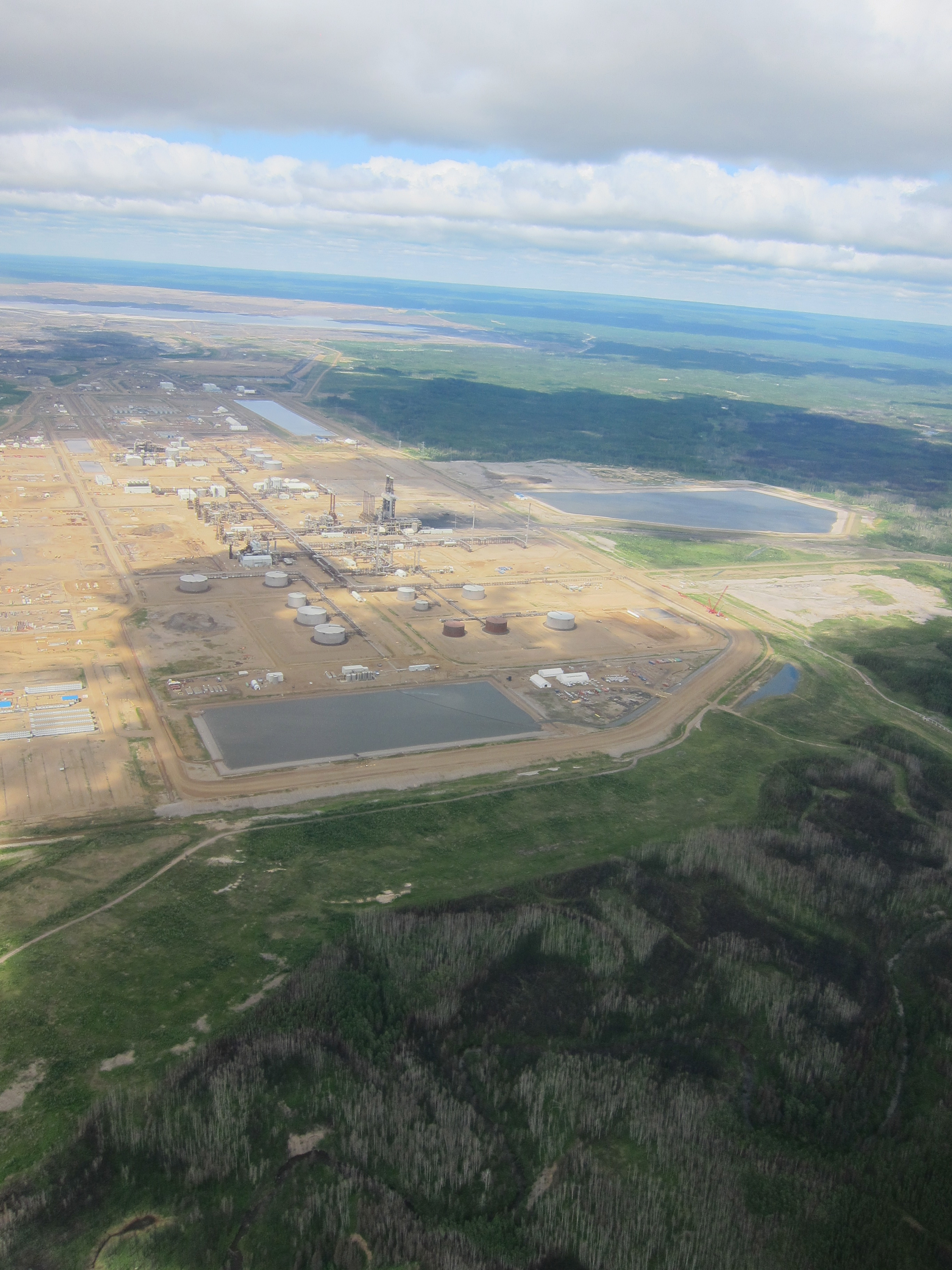 CNRL Horizon processing plant in the Athabasca Oil Sands of Alberta, Canada. Burn from the 2011 Richardson Fire visible in foreground.